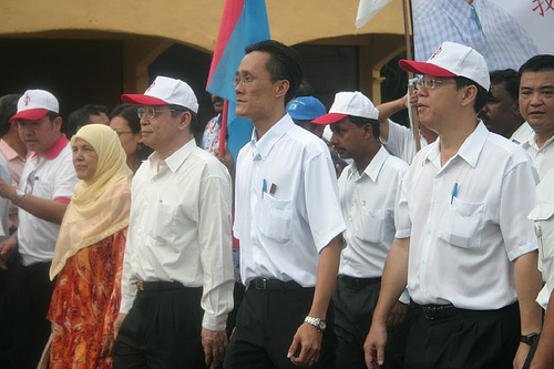 Democratic Action Party leaders with their candidate (centre, foreground without cap) for the Machap by-election, 2007.